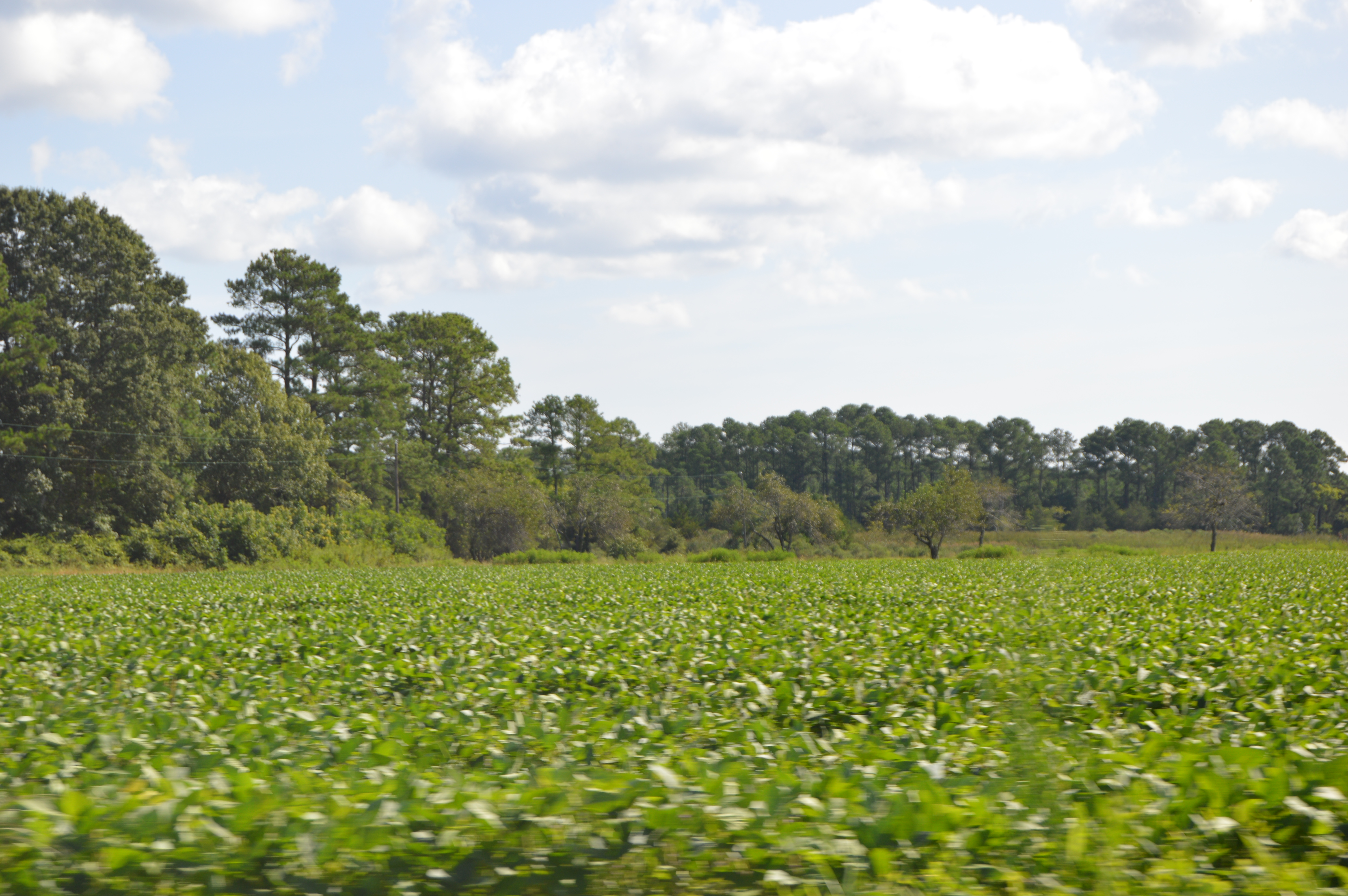 Distant view of the Point Lookout Archaeological Site, located on the private Mobjack Road on Robins Neck in Gloucester County, Virginia, United States. Point Lookout is an archaeological site and has been listed on the National Register of Historic Places.